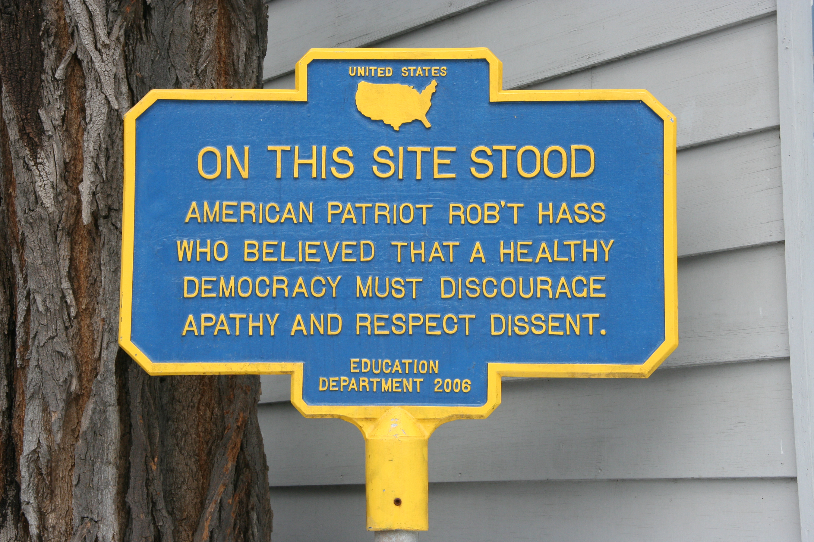 Photo shot by and provided by the artist.